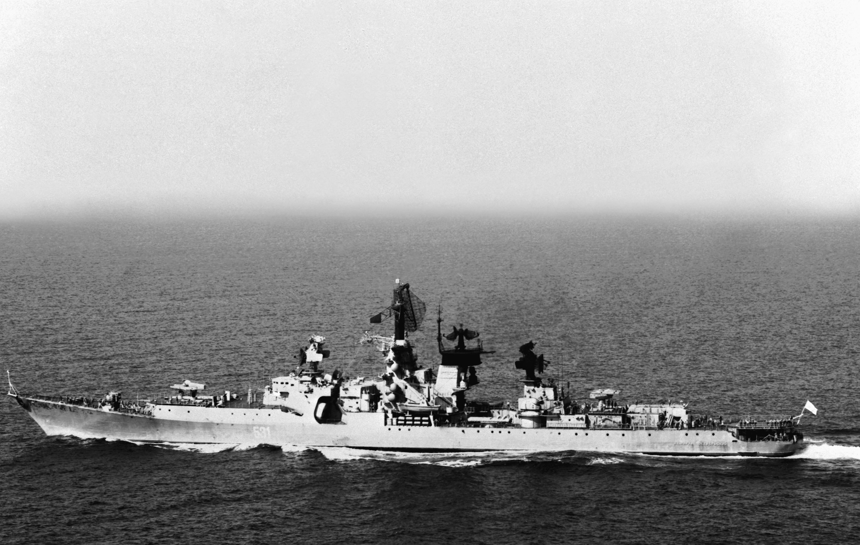 A port beam view of the Soviet Kresta II class guide missile cruiser ADMIRAL OKTYABRSKIY underway.